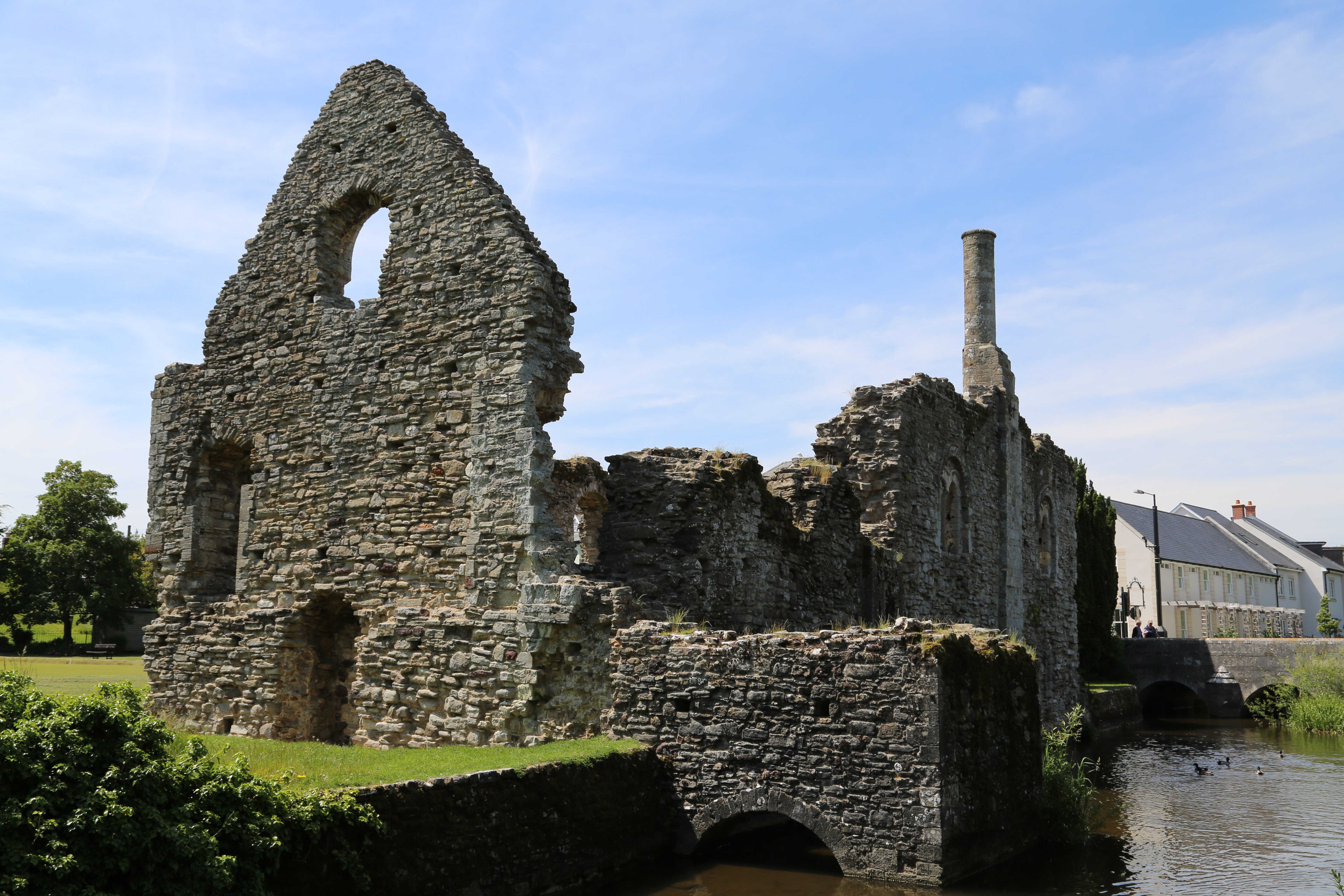 Photo of the Constable's House part of christchurch castle from across the millstream